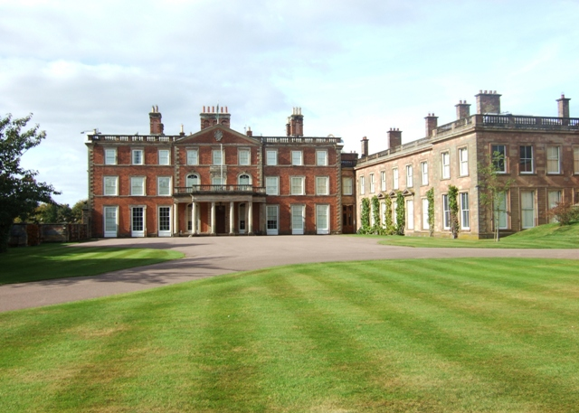 Weston Park The house was built in the Palladian style in the latter part of the C17th. It is now the seat of the 7th Earl of Bradford.